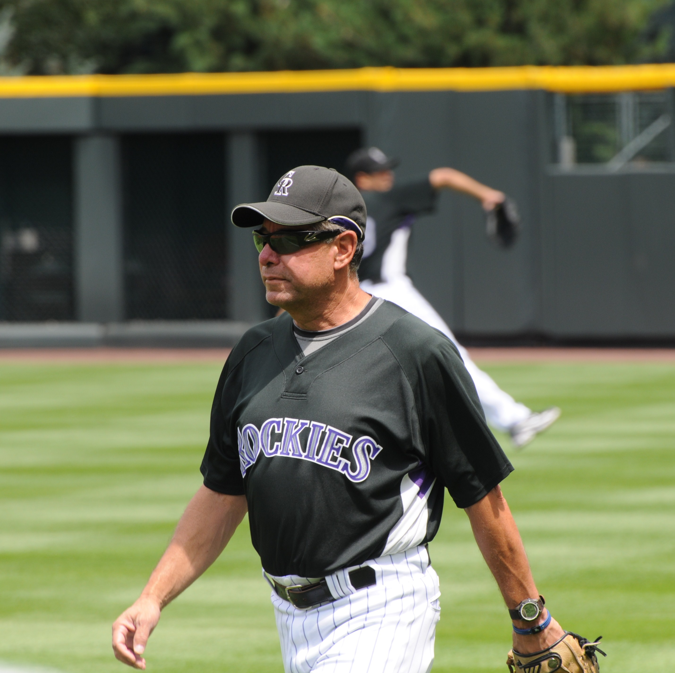 Description own work DateSourceI created this work entirely by myself.AuthorOnetwo1 (talk) 15:44, 8 August 2008 . . Onetwo1 . . 2,858×2,848 (929 KB) own work